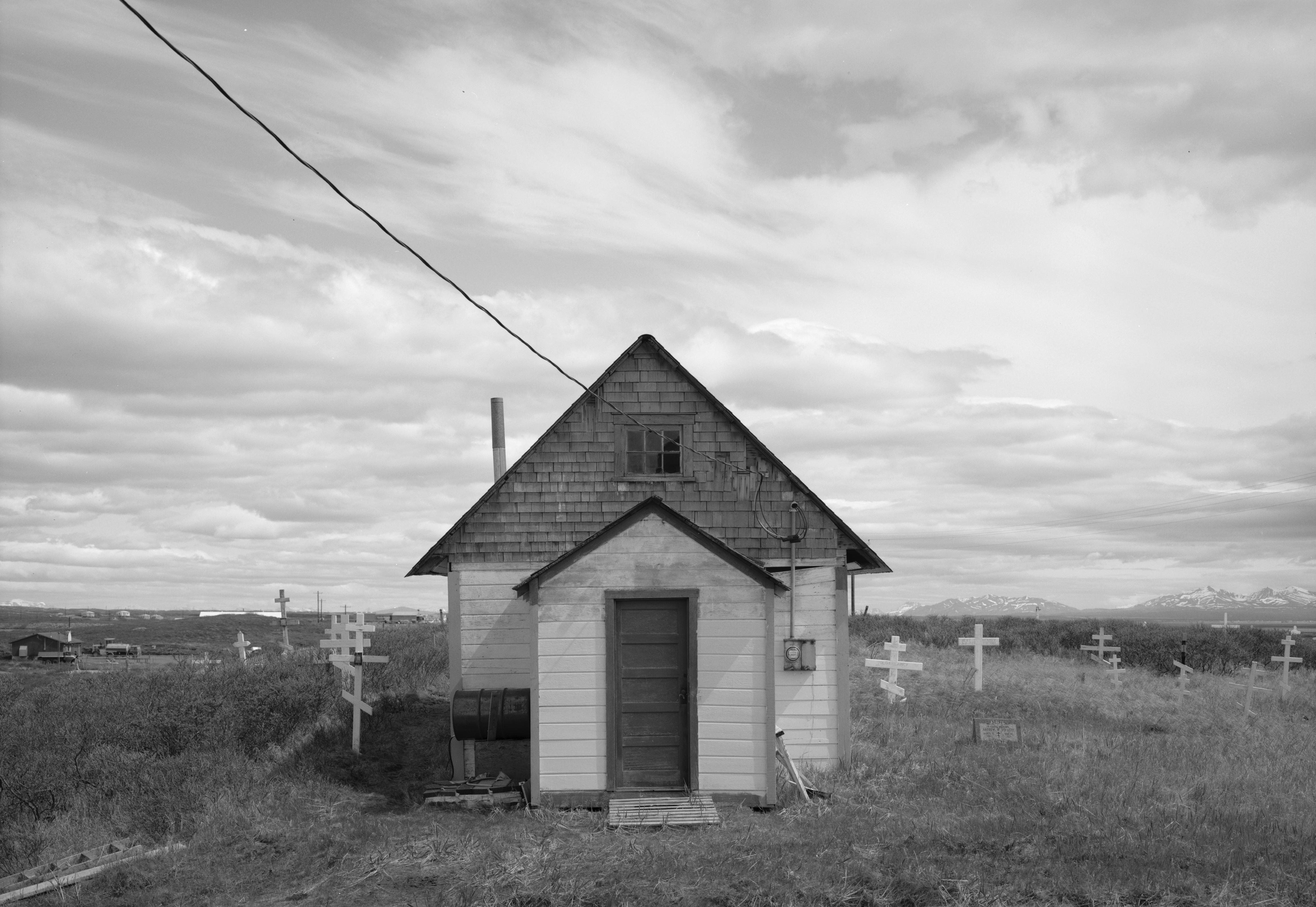 Front of St. Nicholas Church in Pilot Point, a city in the Lake and Peninsula Borough of the U.S. state of Alaska. Built in 1912, it is listed on the National Register of Historic Places.